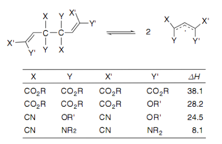 fadsf